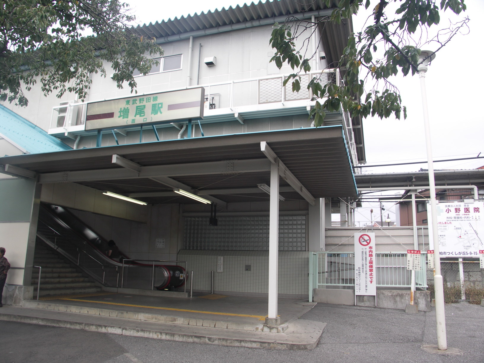 Masuo station west, Tobu-Noda Line, Chiba, Japan, 増尾駅西口